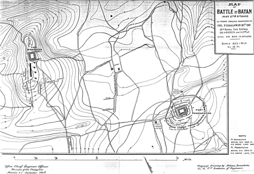 Battle of Bayan